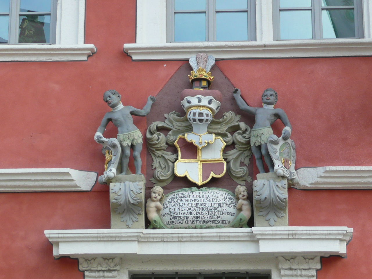 Der Löwenhof